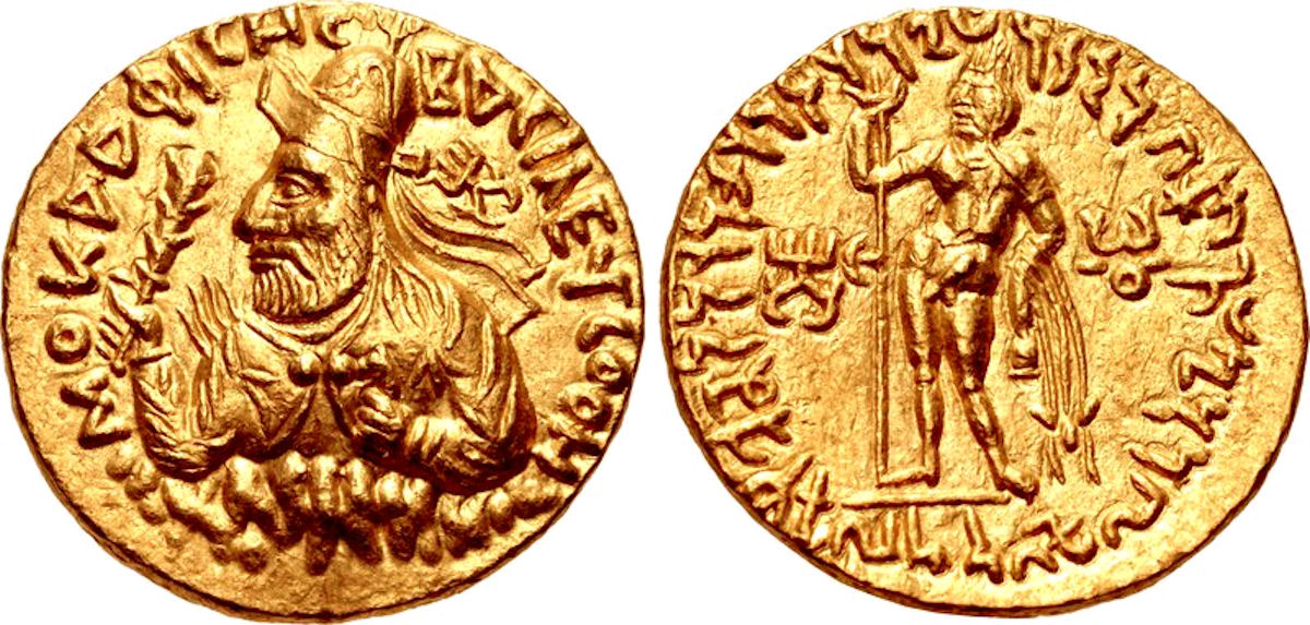 Kujula Kadphises with ithyphallic Shiva